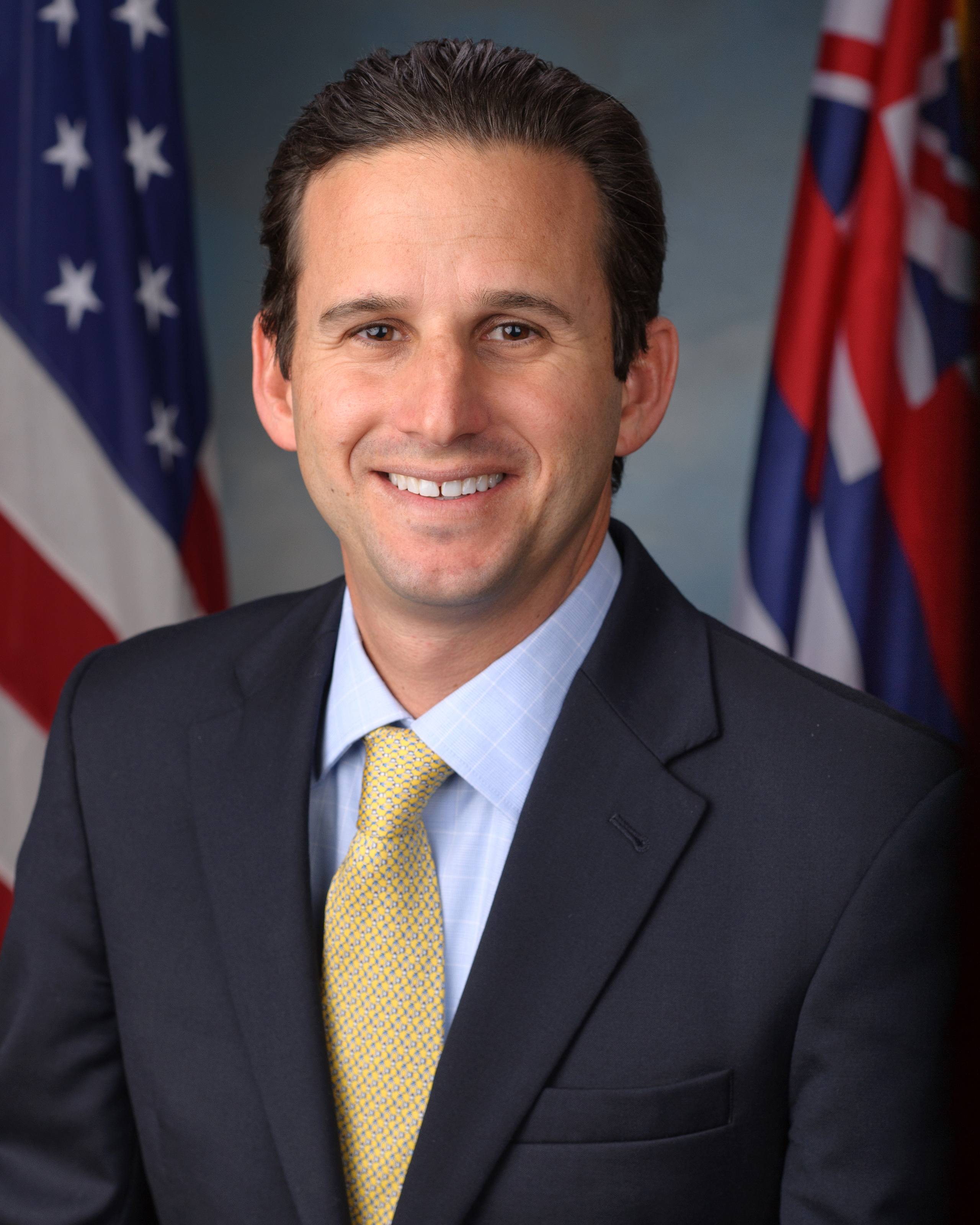 Official portrait of U.S. Senator Brian Schatz (D-HI).